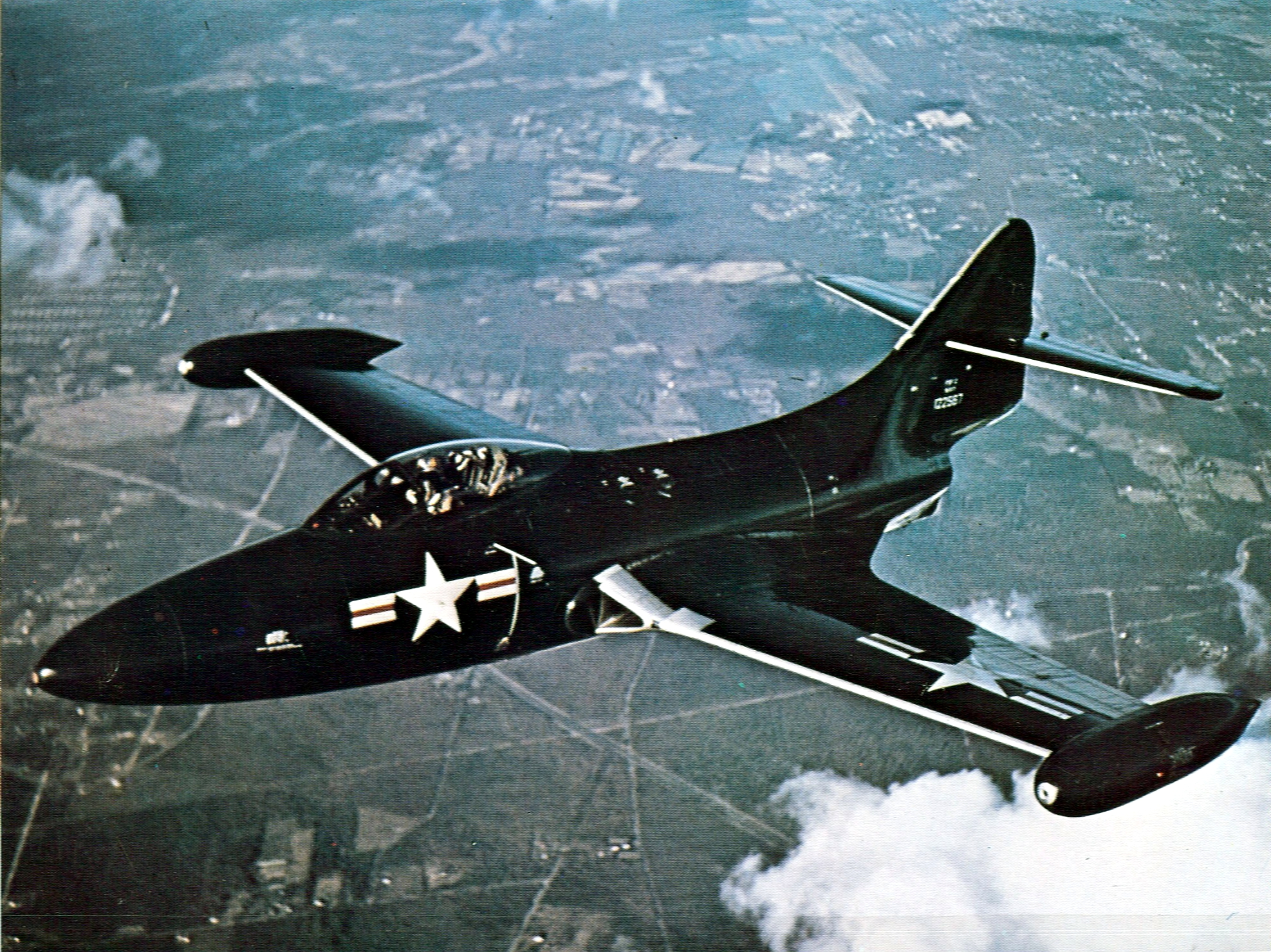 A U.S. Navy Grumman F9F-2 Panther (BuNo 122567) in flight. 122567 was the eighth production aircraft.